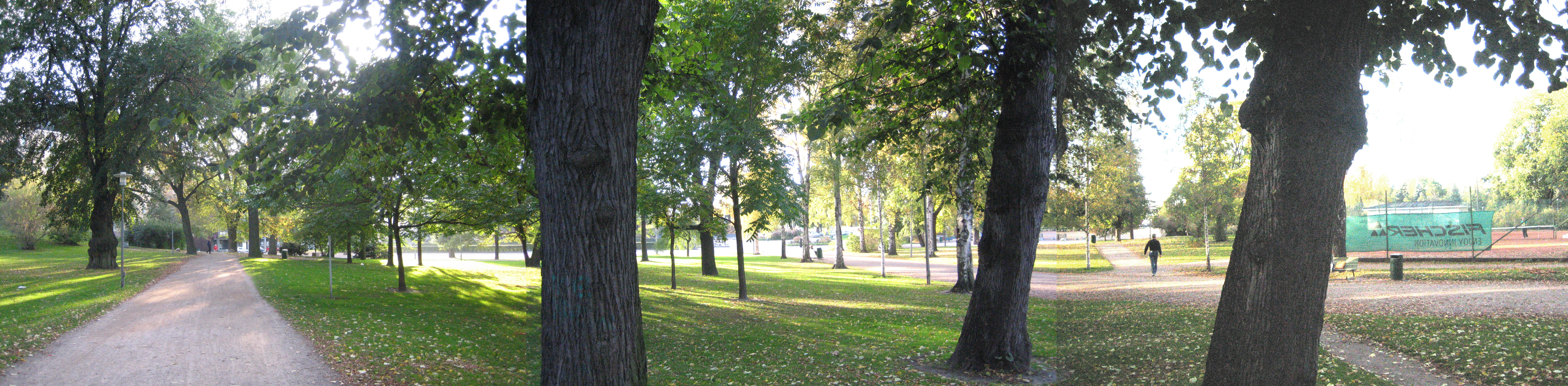 Kaisaniemi Park in Helsinki. NOTA BENE: Picture is large, it will take U a while to load if U want to look at it zoomed-in.